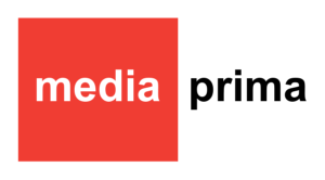 Media Prima Current logo